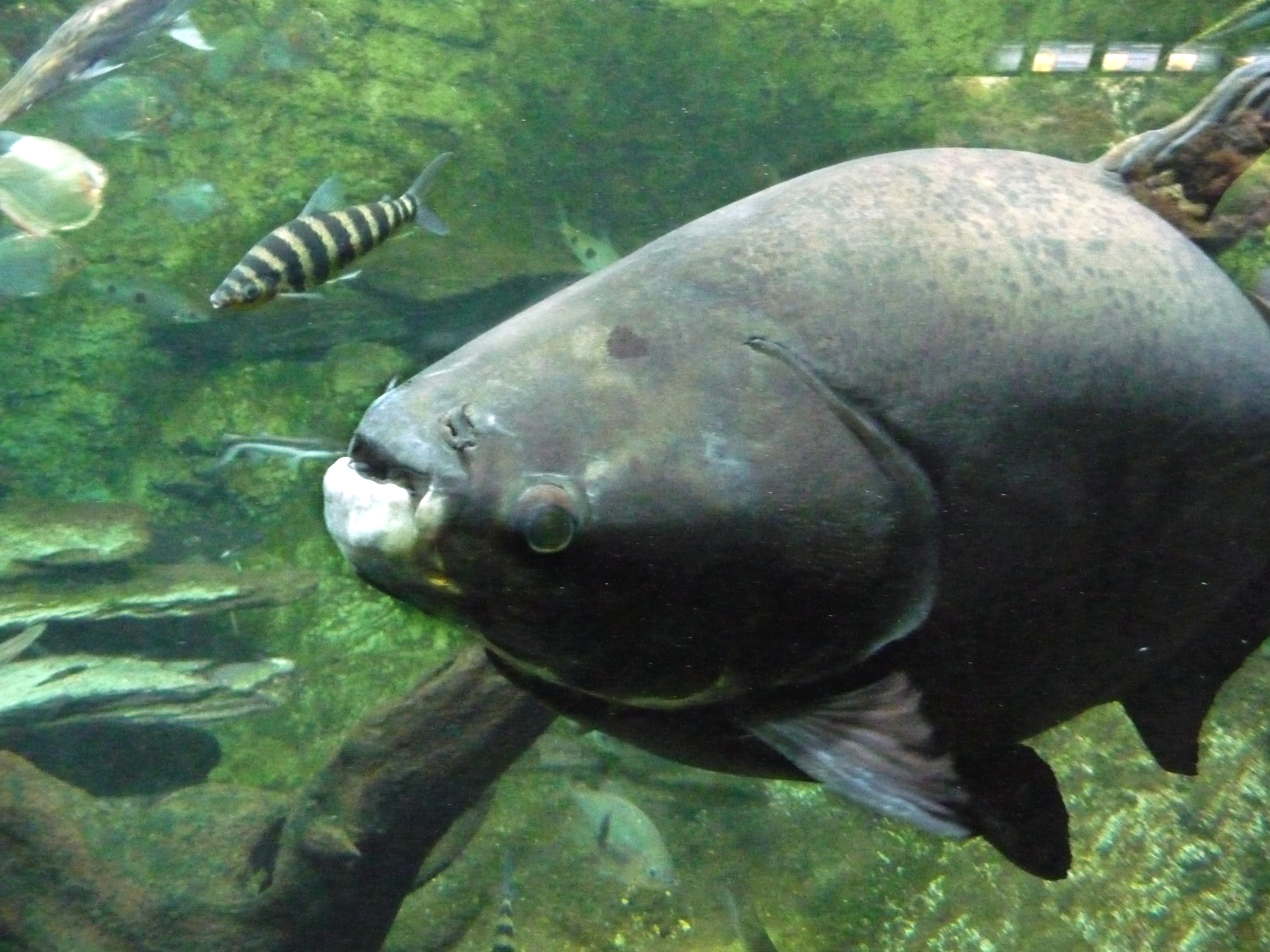 Piaractus brachypomus